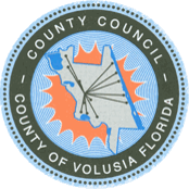 The official seal of Volusia County, Florida.